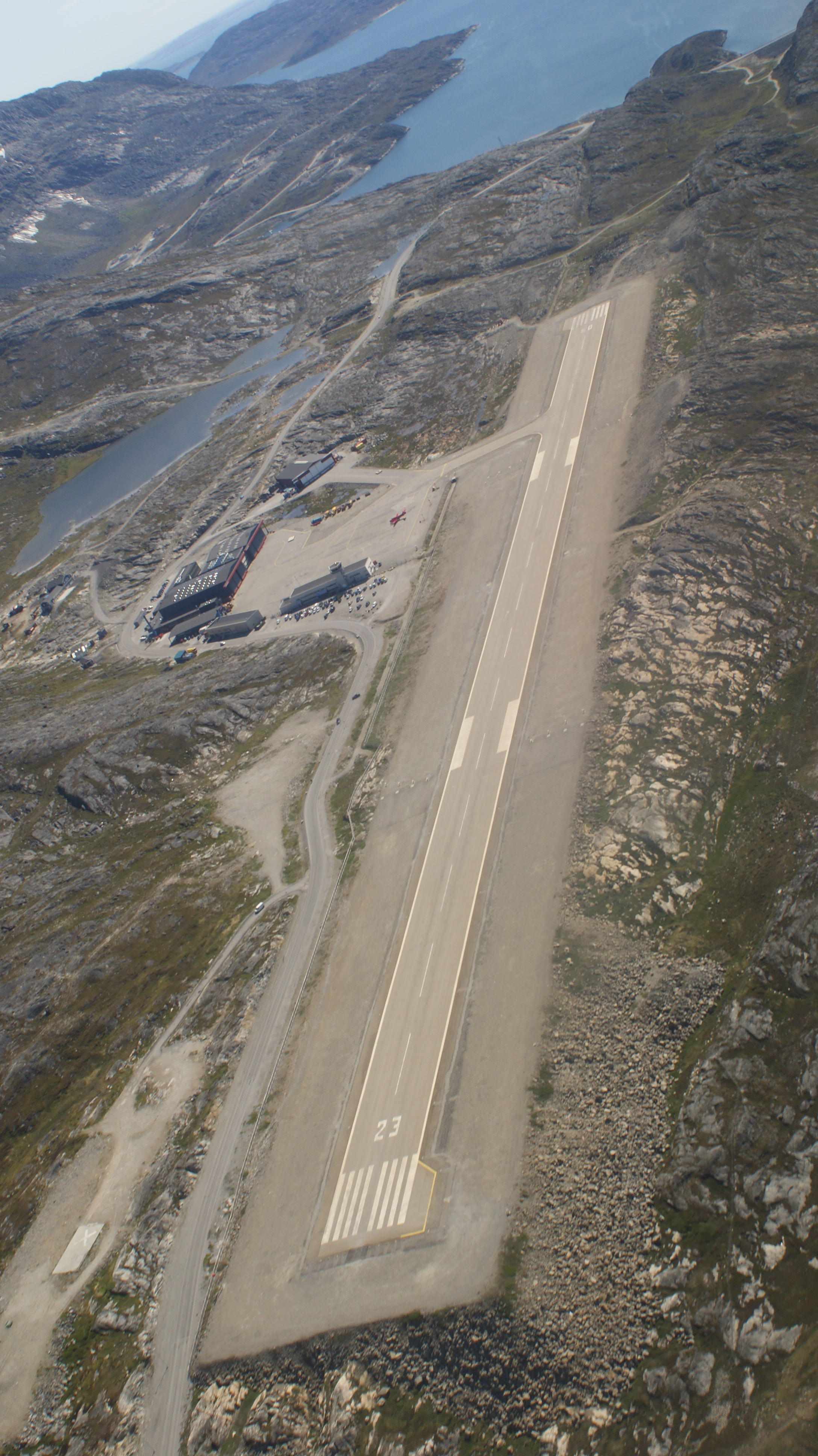 Runway at Nuuk Airport (GOH), Greenland. Aerial photograph from the Air Greenland de Havilland Canada Dash-7 "Sululik" during the Sisimiut-Nuuk flight.